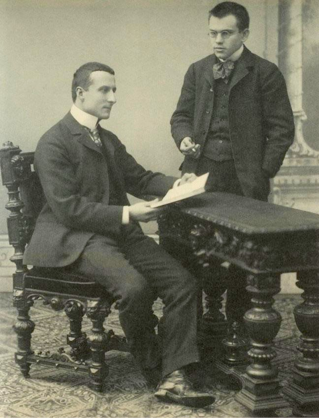 Greek mathematician Constantin Caratheodory (Κωνσταντίνος Καραθεοδωρής) (1873-1950) (left) with Hungarian mathematician Lipót Fejér (standing to the right)